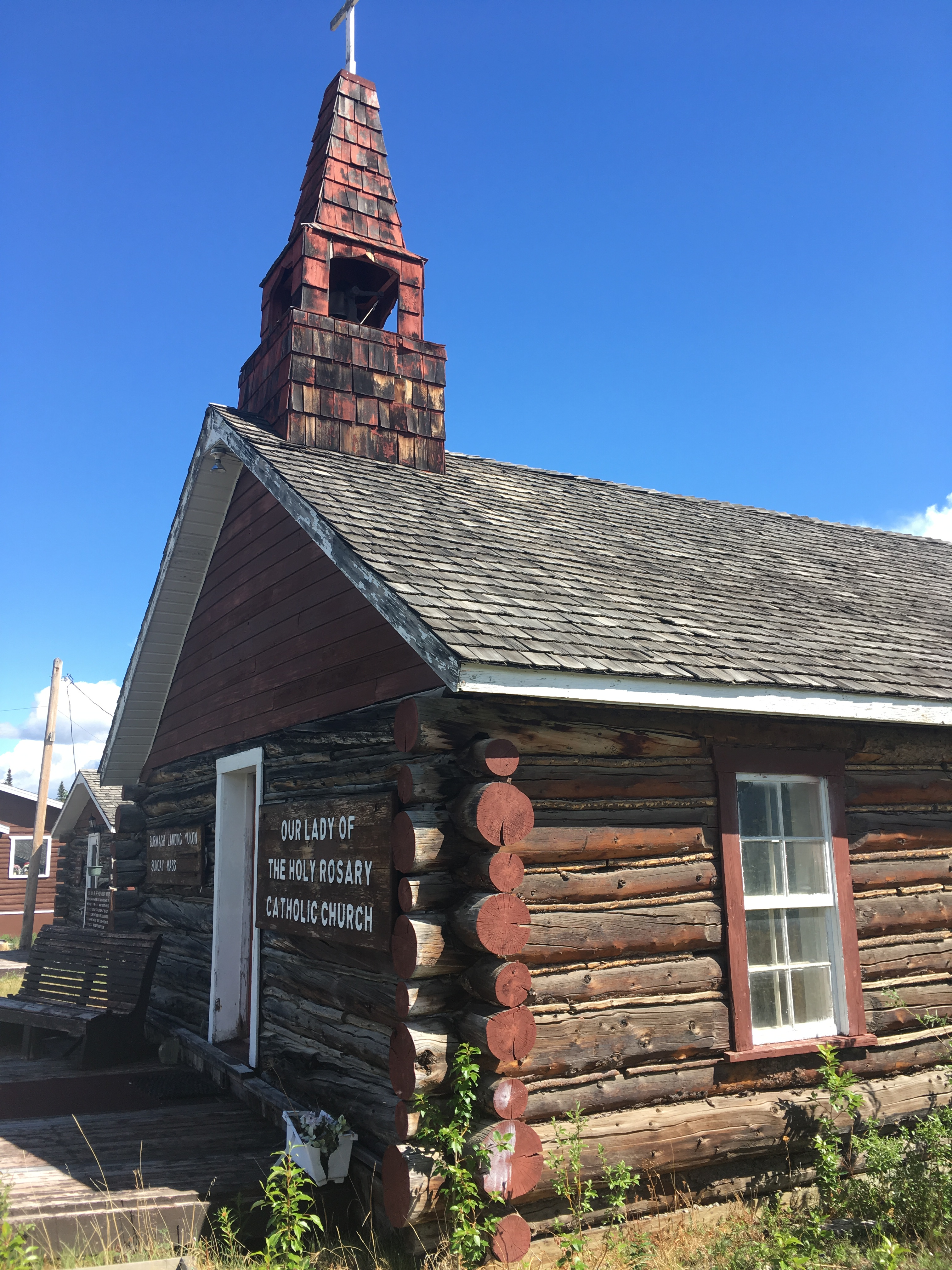 Our Lady of the Holy Rosary Catholic Church, Burwash Landing, Yukon Territory, Canada.